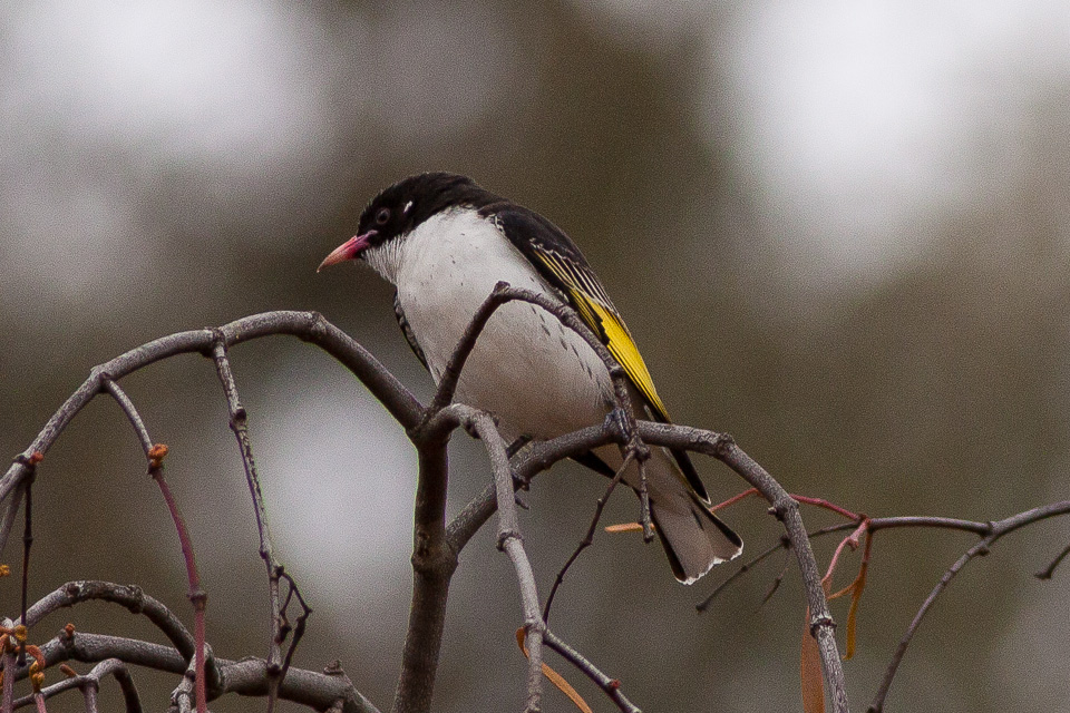 Painted Honeyeater (Grantiella picta)